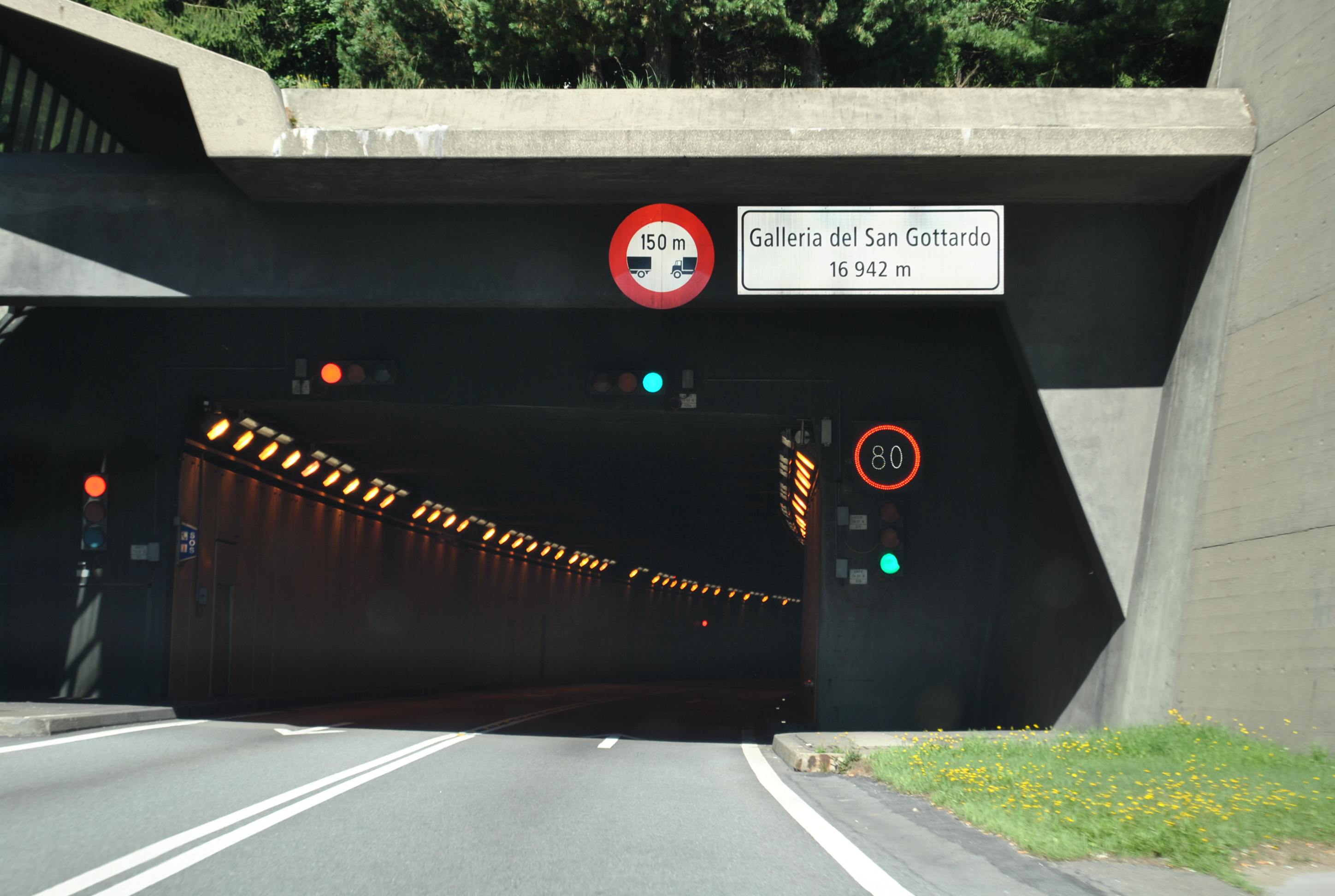 The entrance of Gotthard Road Tunnel (Switzerland) from the south side